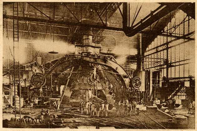 Creusot Steam Hammer, early 20th century postcard